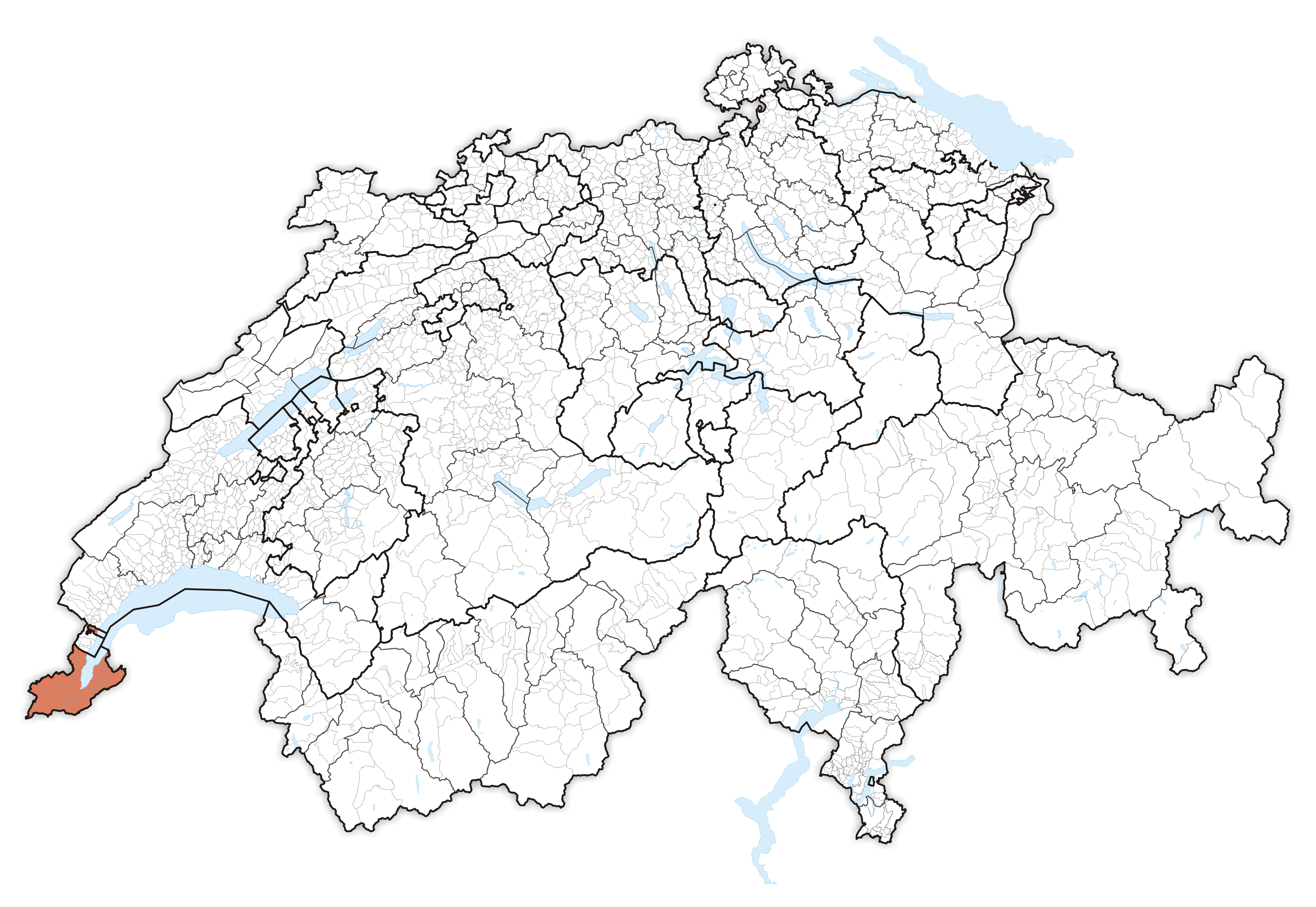 Canton Genf